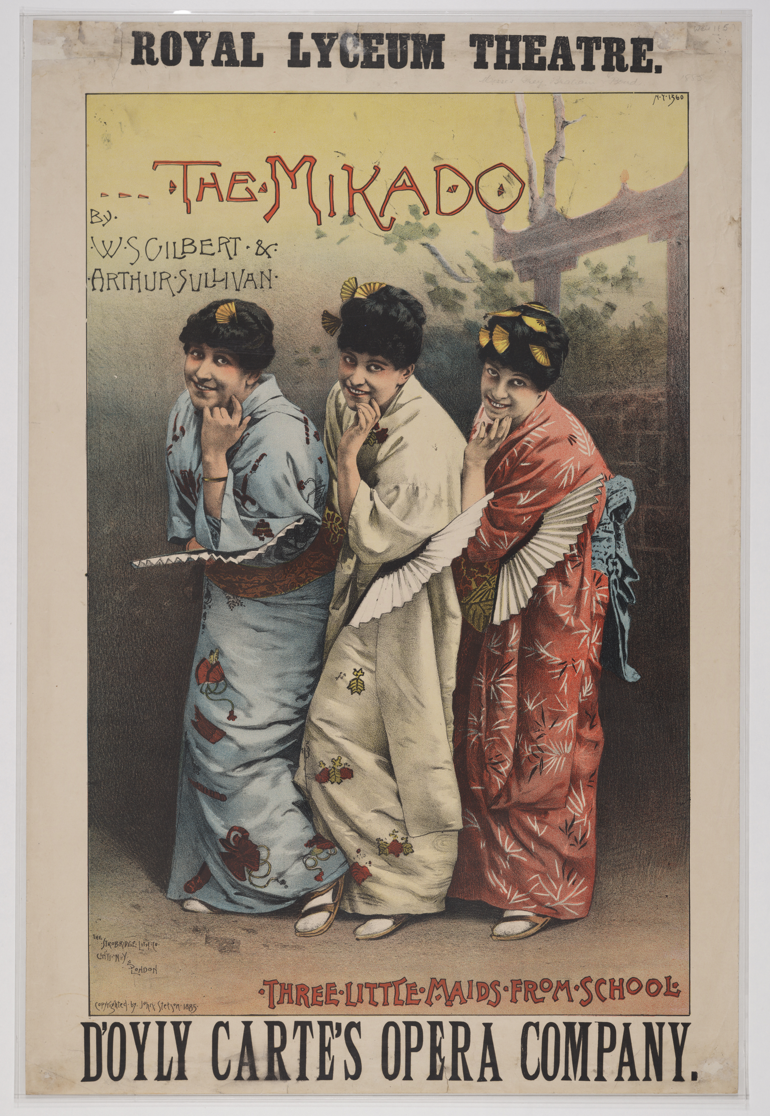 'The Mikado' by W. S. Gilbert & Arthur Sullivan. 'Three little maids from school'. D'Oyly Carte's Opera Company. Printed by The Strobridge Lithographer Co., Cinti [= Cincinnati], N[ew] Y[ork], London. Copyrighted by John Stetson 1885.